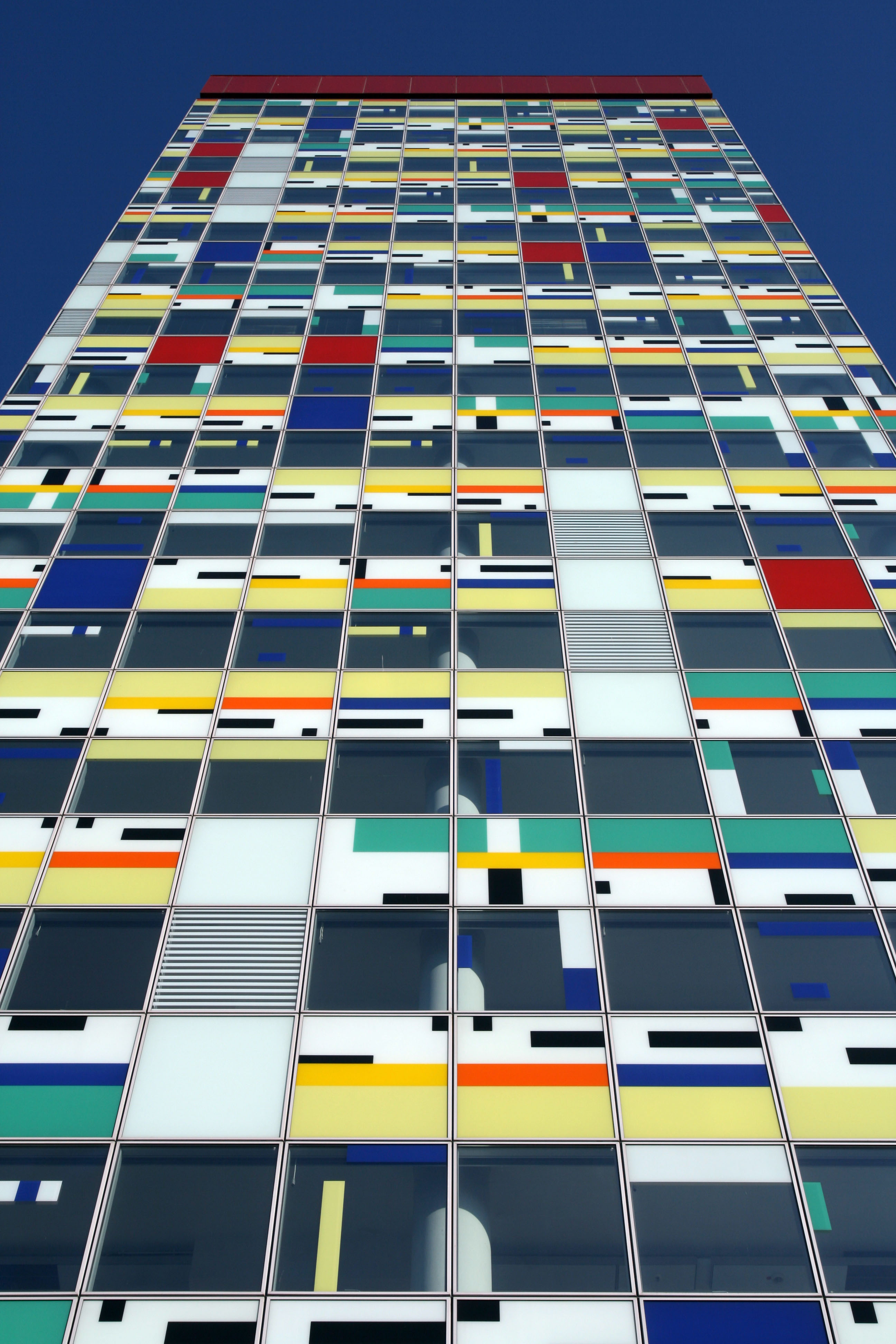 "Colorium" office building in Medienhafen, Düsseldorf (Germany)